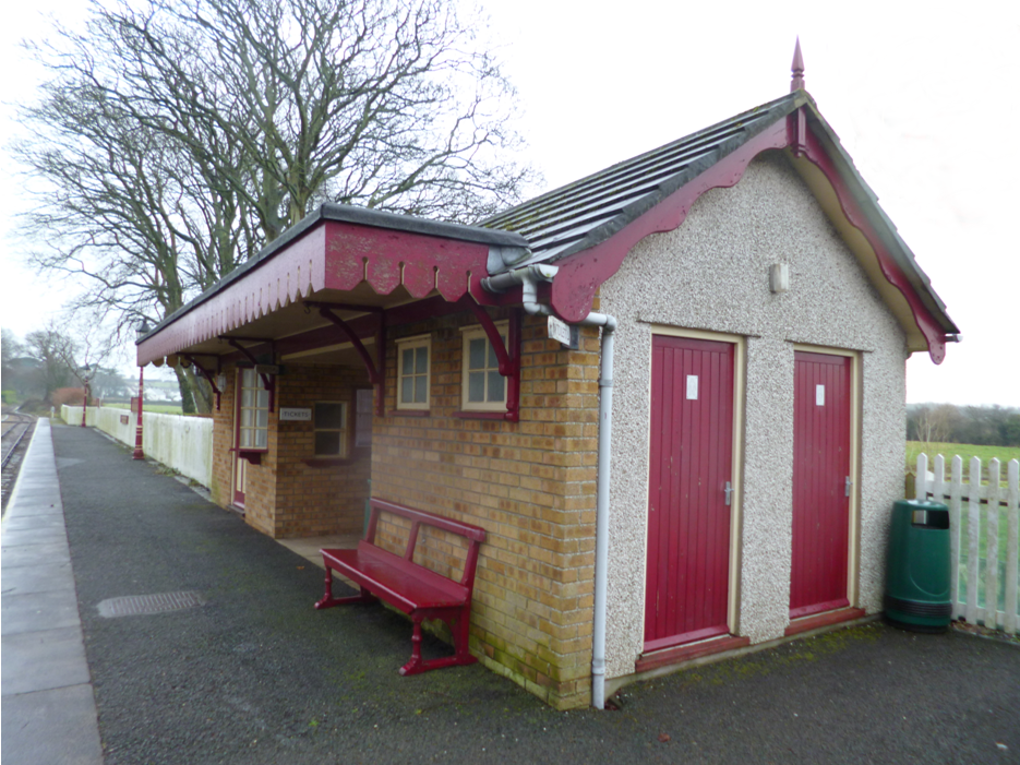 The replacement station at Ballasalla constructed in 1986 for the Isle of Man Railway